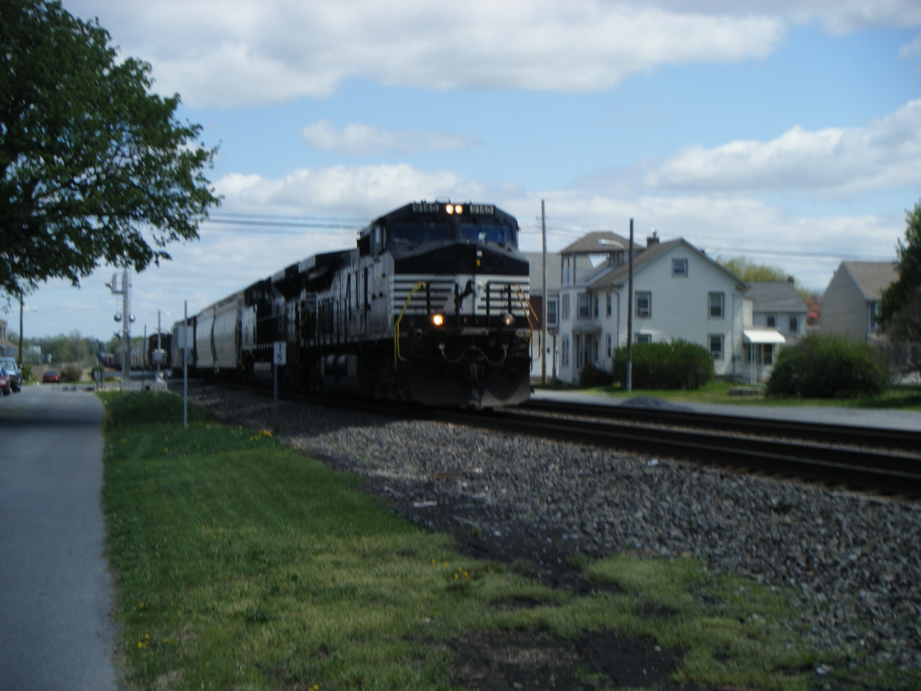 Norfolk Southern Railway GE C40-9W 9145 leads a manifest freight westbound on the Reading Line through Lyons, Pennsylvania.